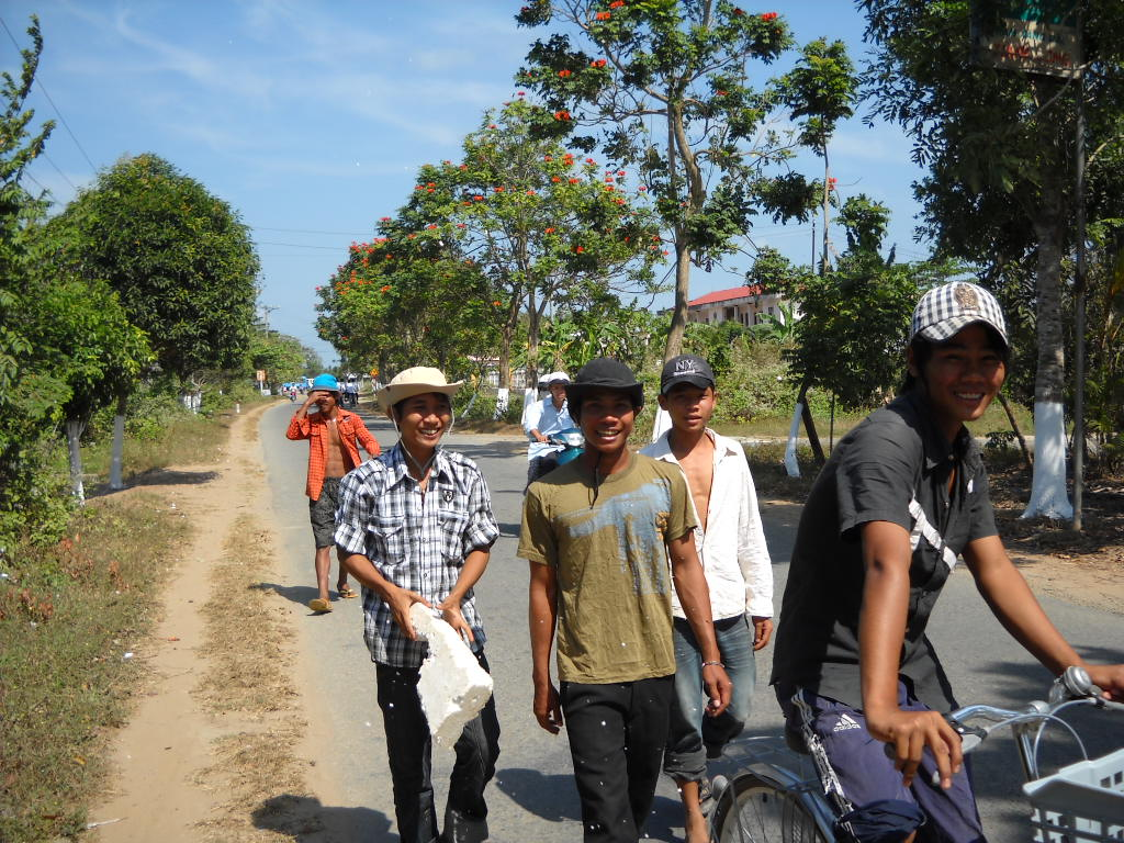 Khmer Krom, Vietnamese Khmer people